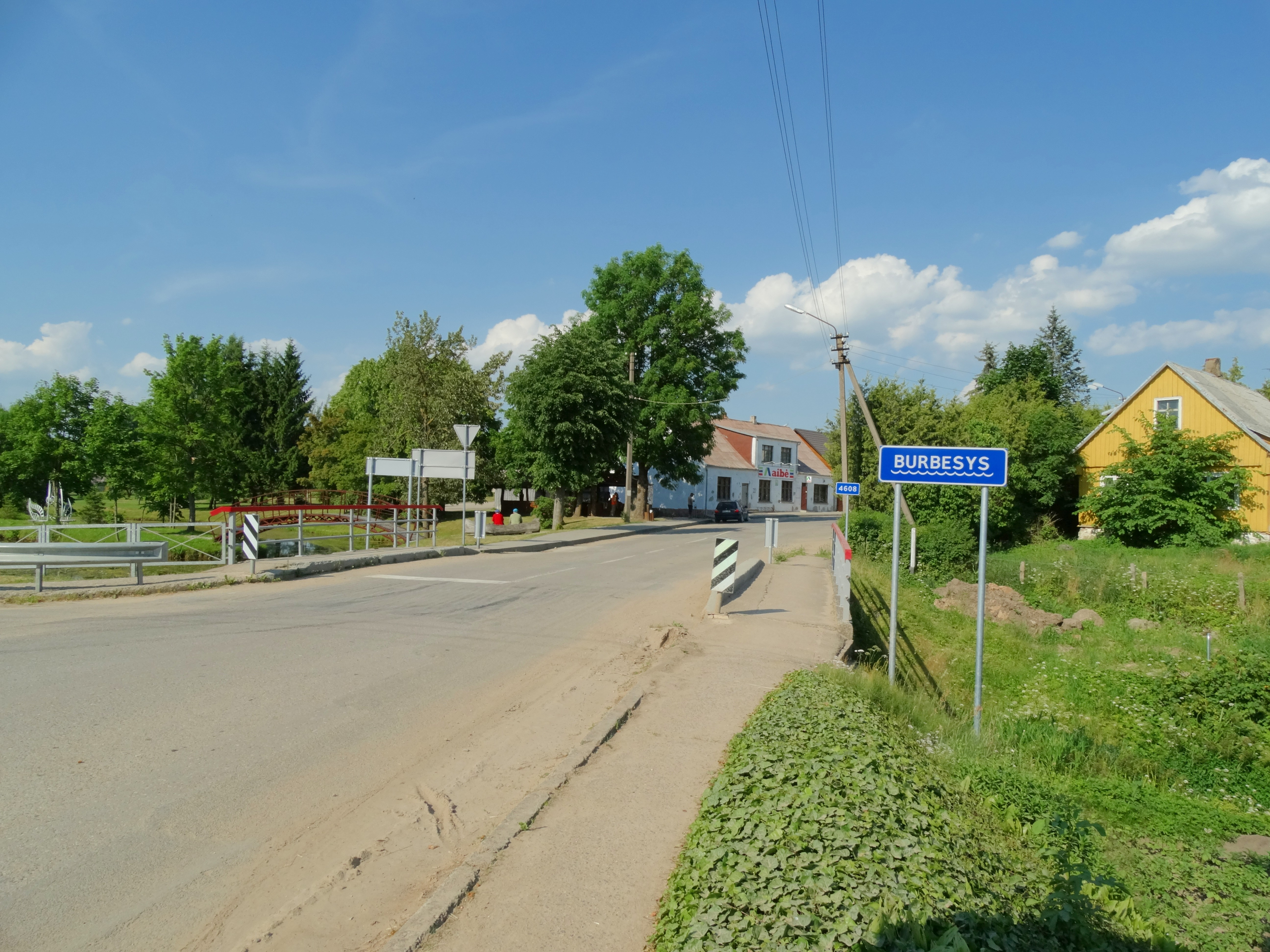 Nevarėnai, Telšiai District, Lithuania